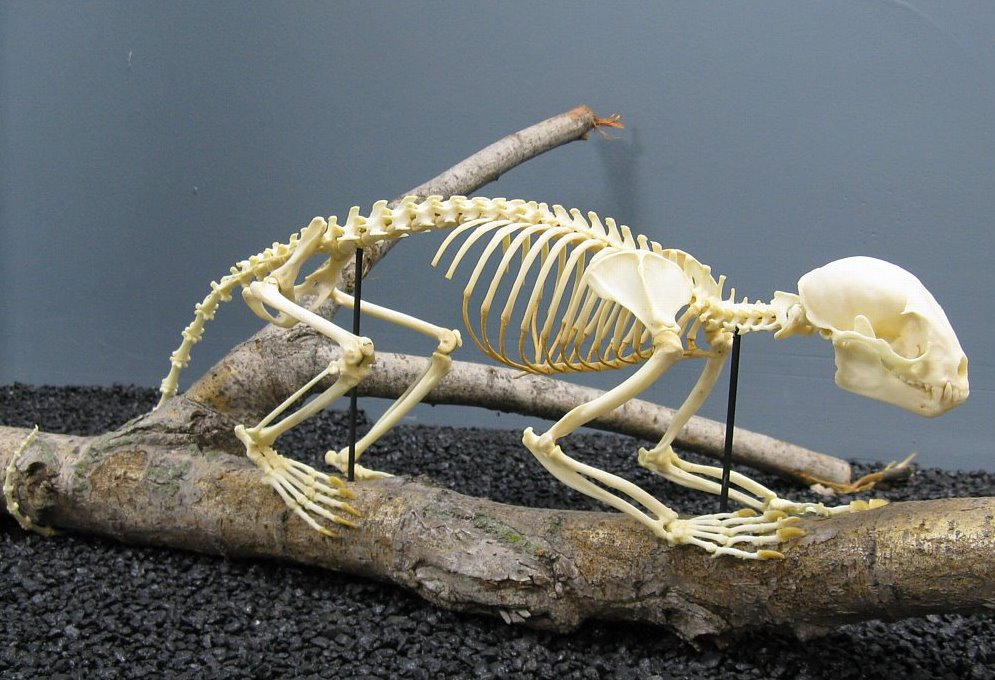 Kinkajou Skeleton on Display at The Museum of Osteology, Oklahoma City, Oklahoma.